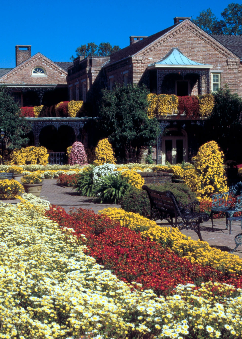 Bellingrath Gardens south of Mobile, Alabama